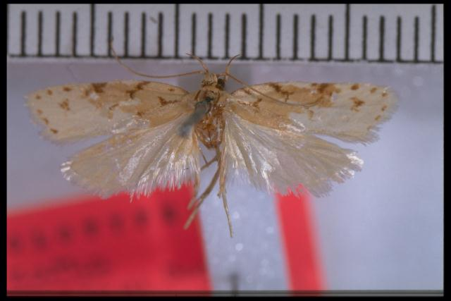 Izatha hudsoni Dugdale, 1988.New Zealand Arthropod Collection (2013) Ko te Aitanga Pepeke o Aotearoa - New Zealand Land Invertebrate Names Database.